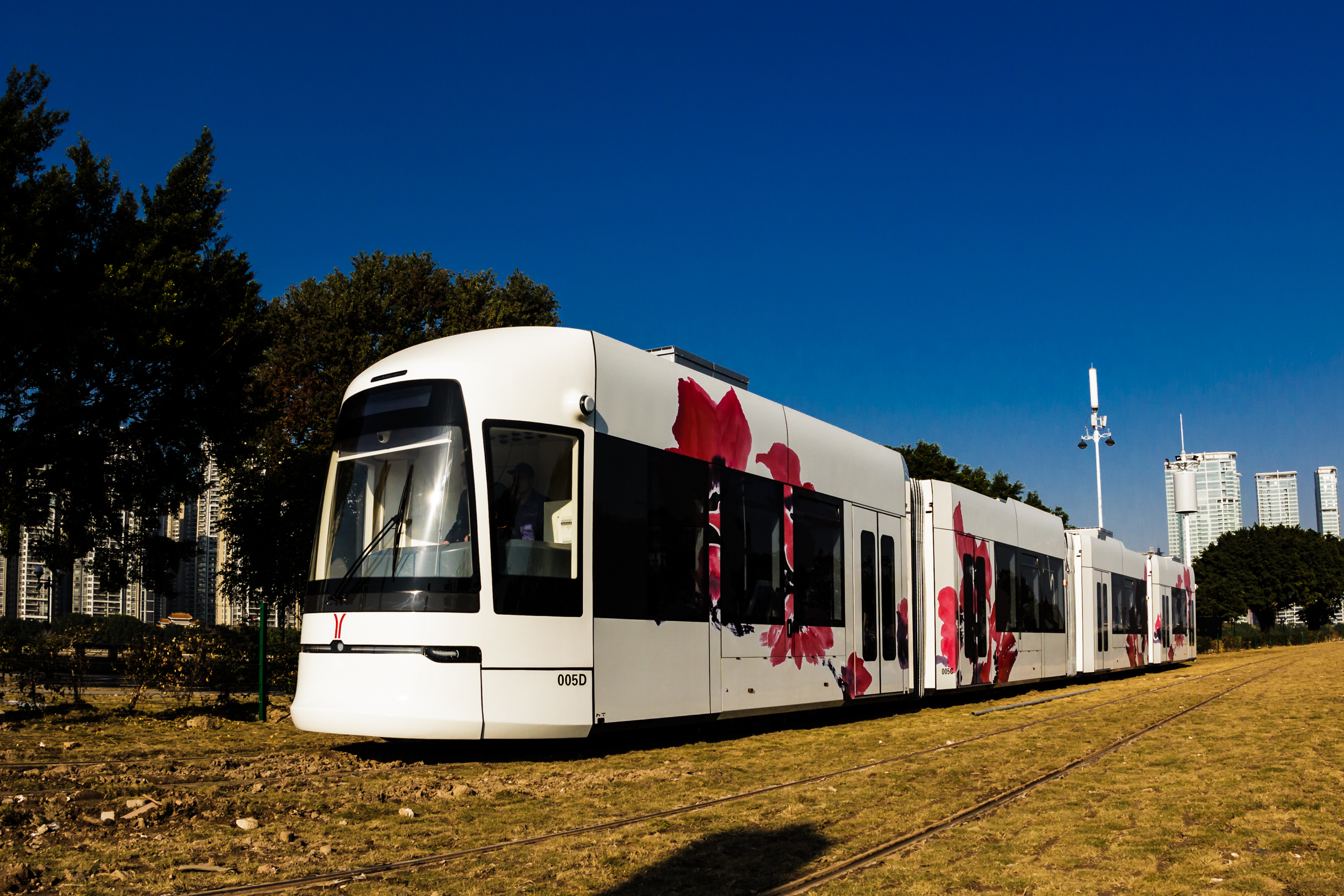 5th tram of THZ1